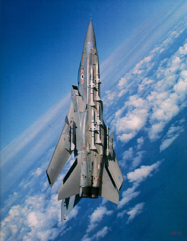 An armed Panavia Tornado F.3 of the Royal Air Force.